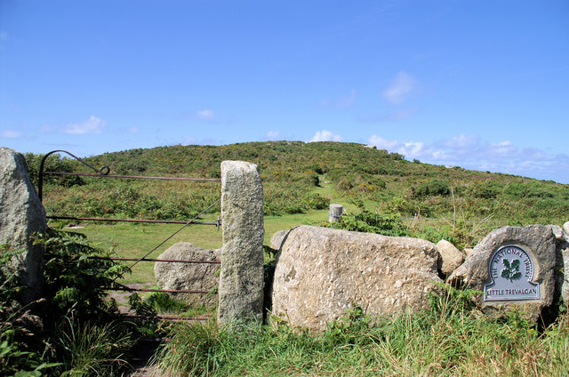 Trevalgan Hill, near to Towednack, Cornwall, Great Britain. The entranceto the National Trust land at Little Trevalgan.